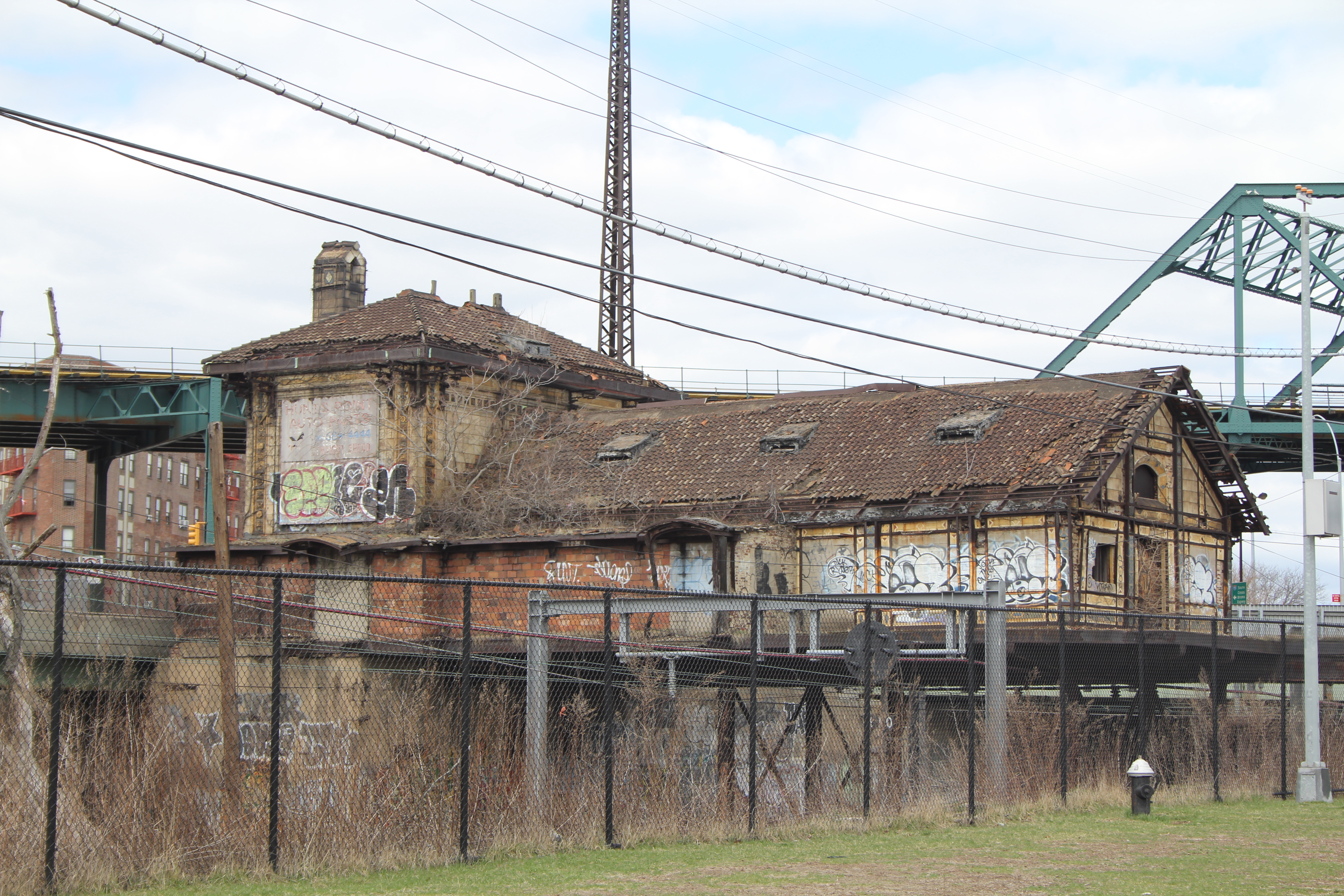 View of Westchester Avenue Station from the southeast (Concrete Plant Park). Located on a platform over Amtrak's Northeast Corridor in Bronx, NY. Built 1908, designed by Cass Gilbert, abandoned in the 1930s.